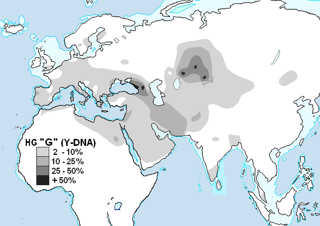 Haplogroup G (Y-DNA) distribution